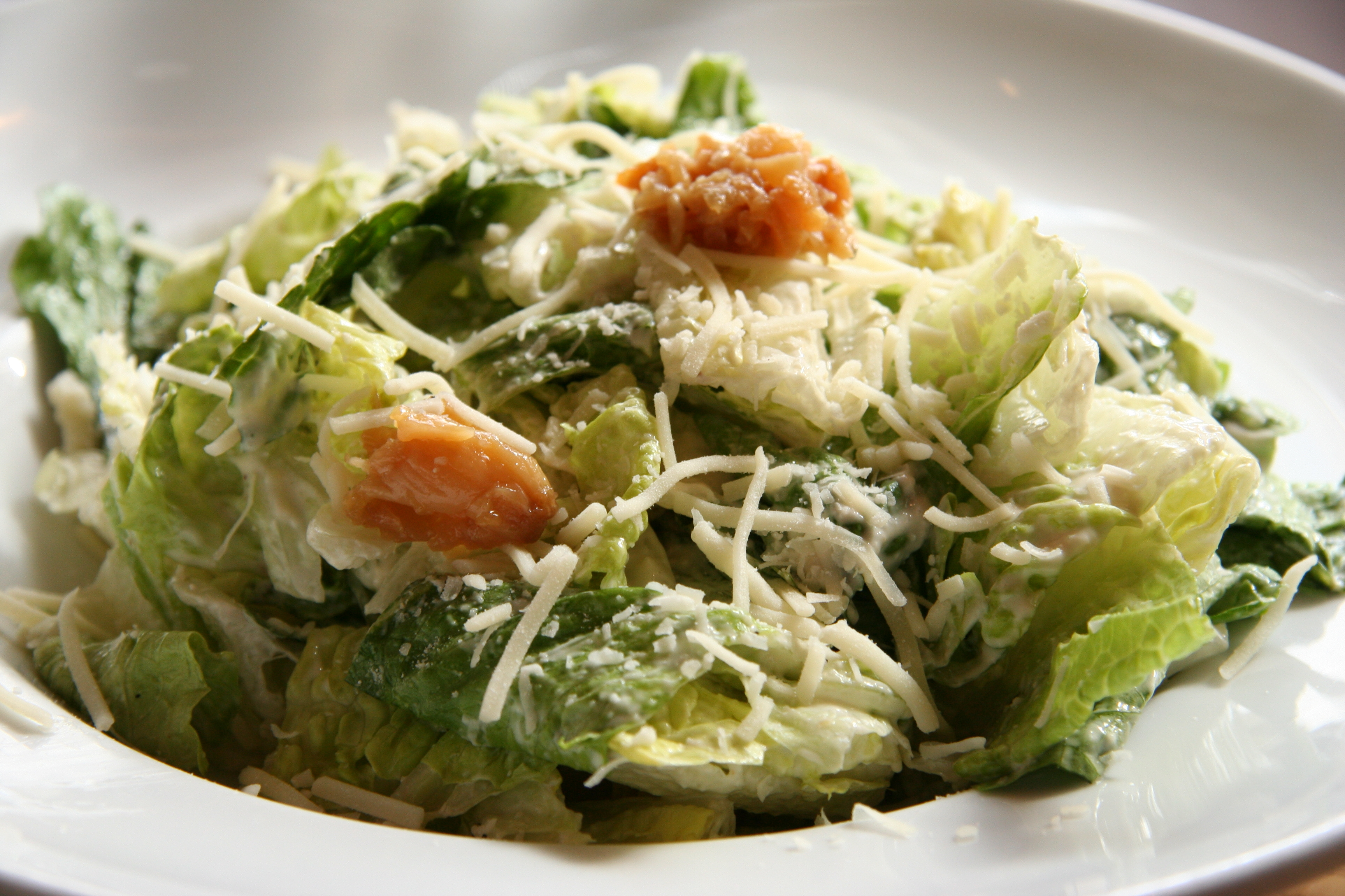 Milestones restaurant in Yaletown, downtown Vancouver BC Canada